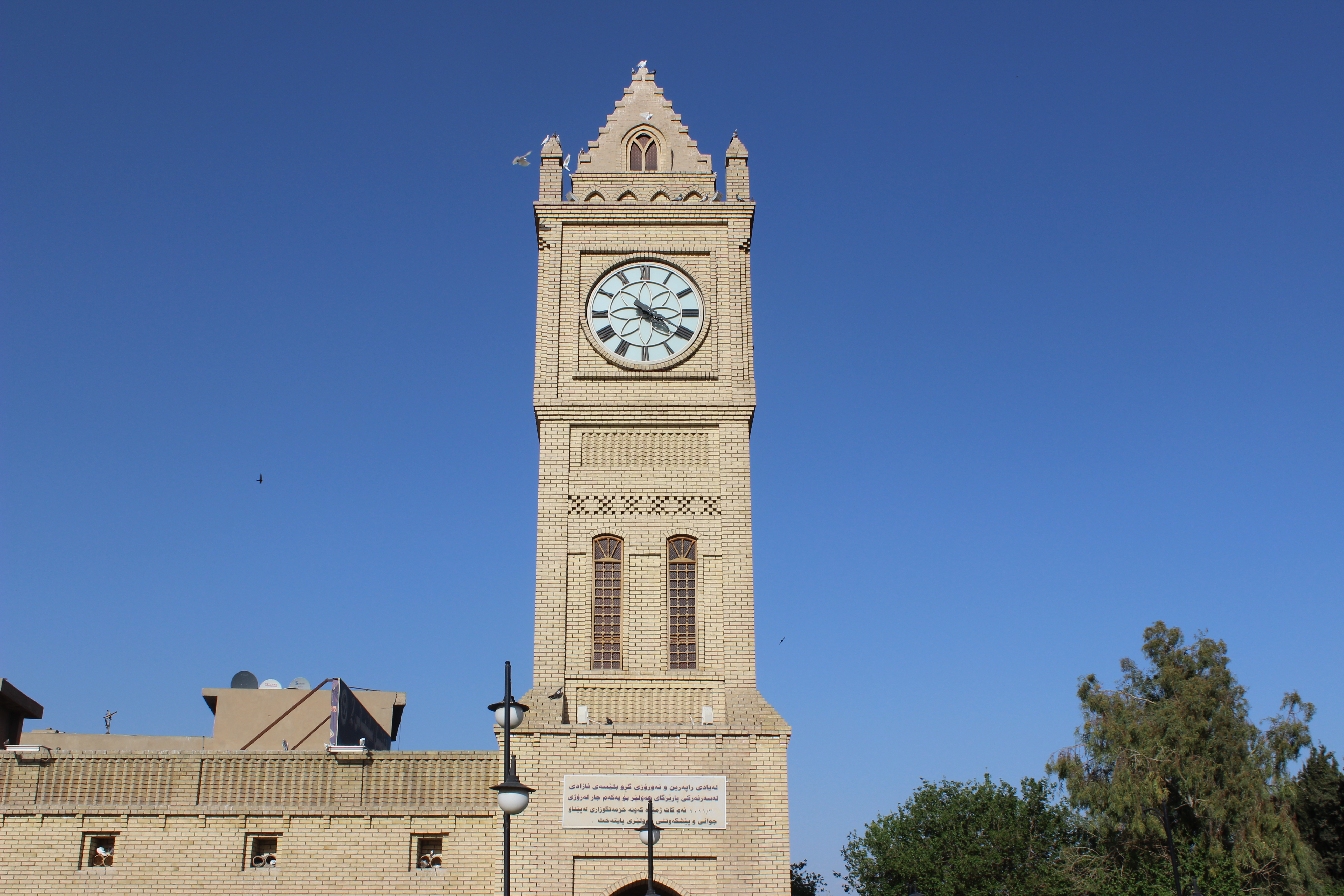 Clock near baxi shar(City Park) in Arbil, Iraqi Kurdistan Kurdî: کاتژمێر ، لە نزیک باخی شار لە هەرێمی کوردستان (کوردستانی عێراق-کوردستانی باشوور)